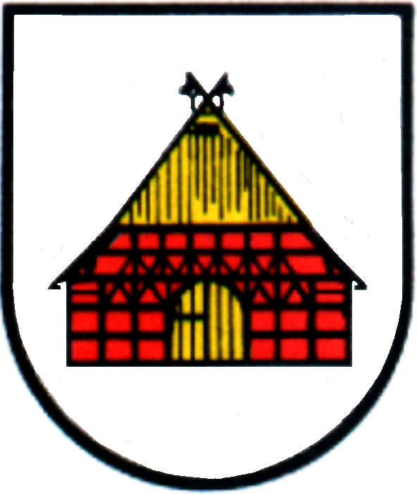 Coat of arms of :de:Bothel.